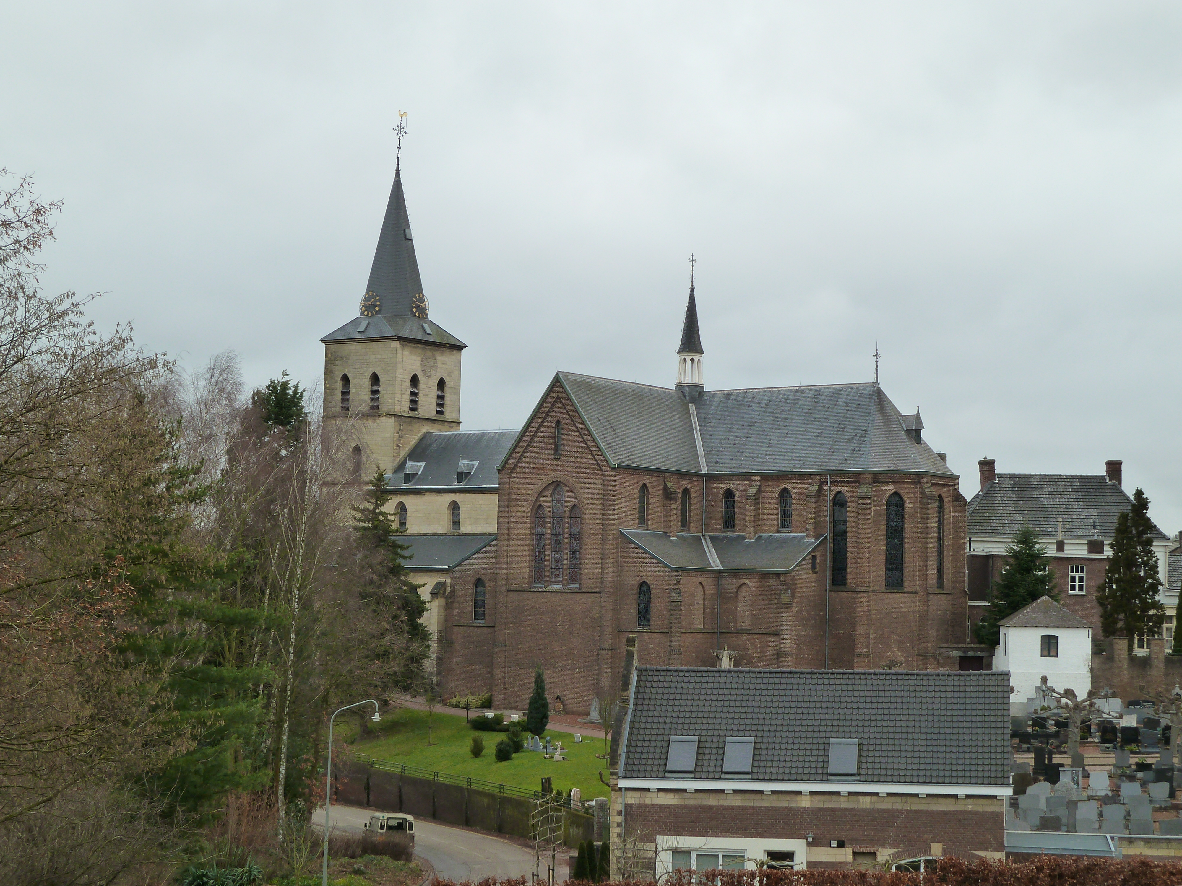 Church of Schinnen, Limburg, the Netherlands